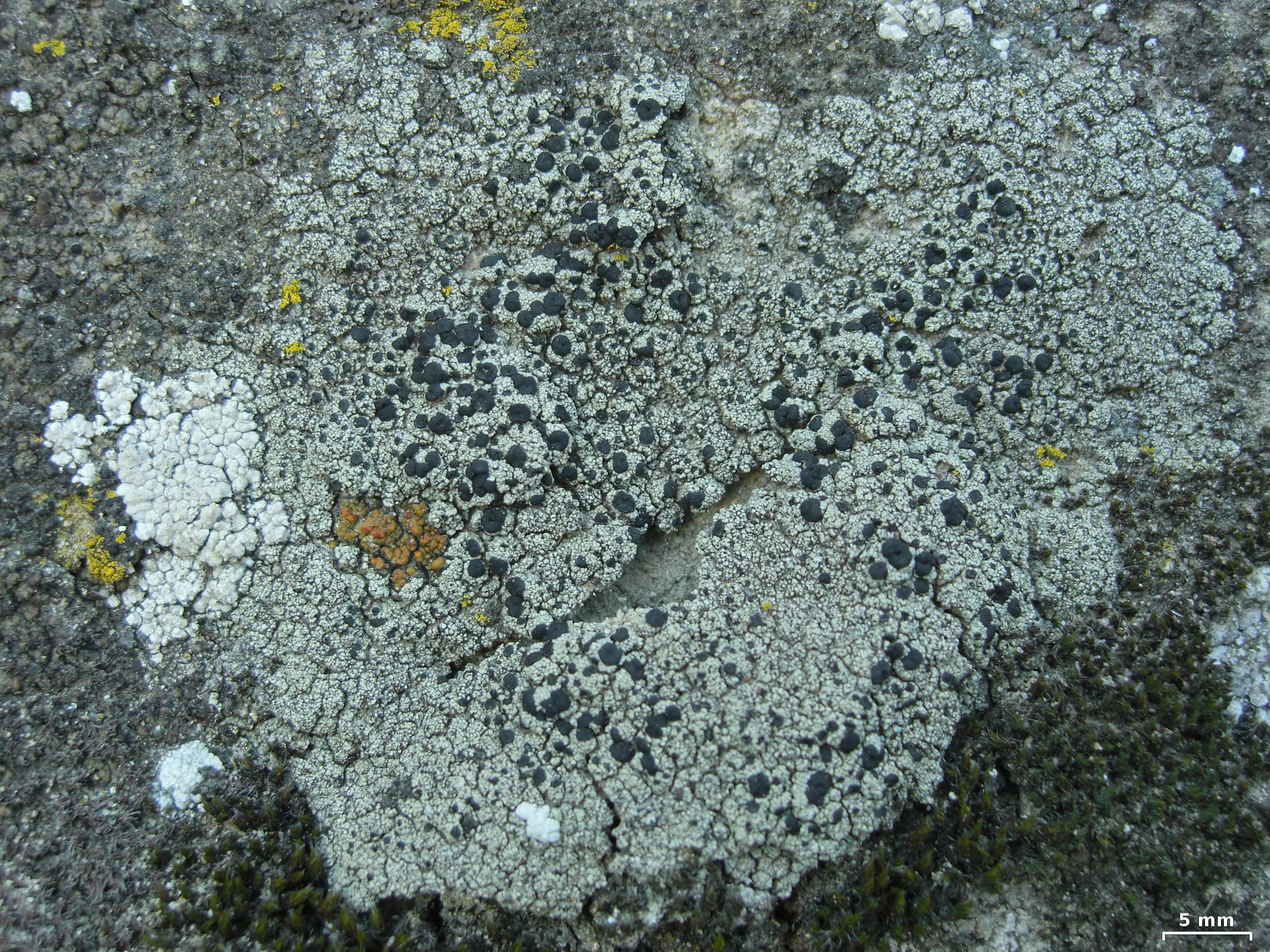 Castro Crest, Santa Monica Mts, southern California, 20110928